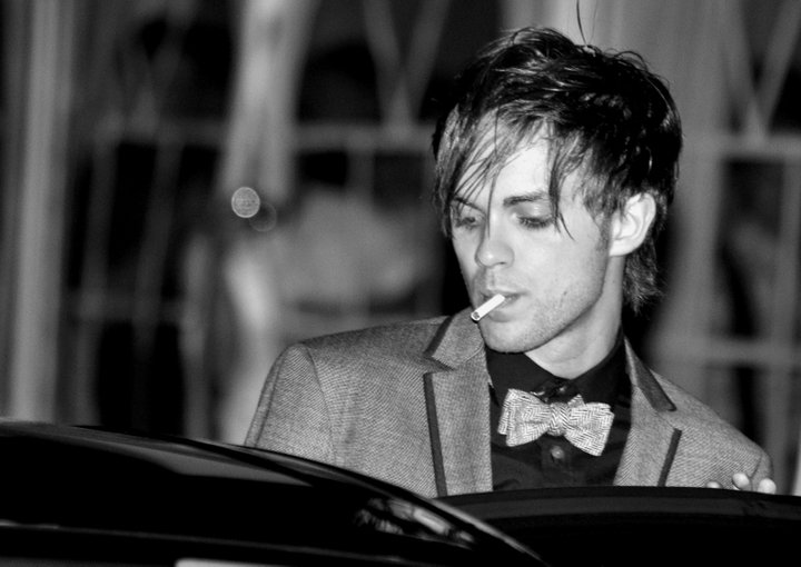 Thomas Dekker at the 2010 Deauville American film festival for the movie Kaboom